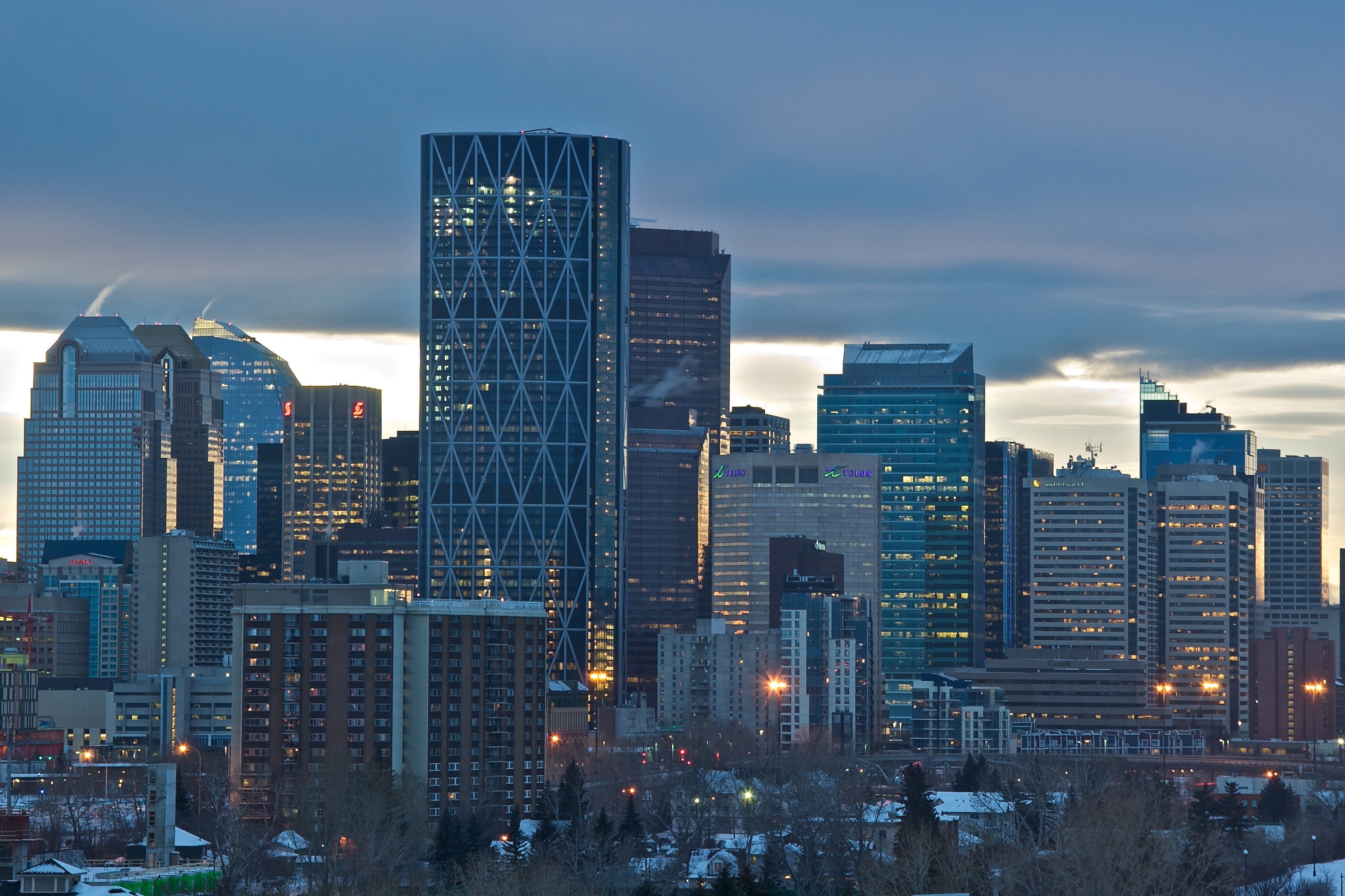 Chinook